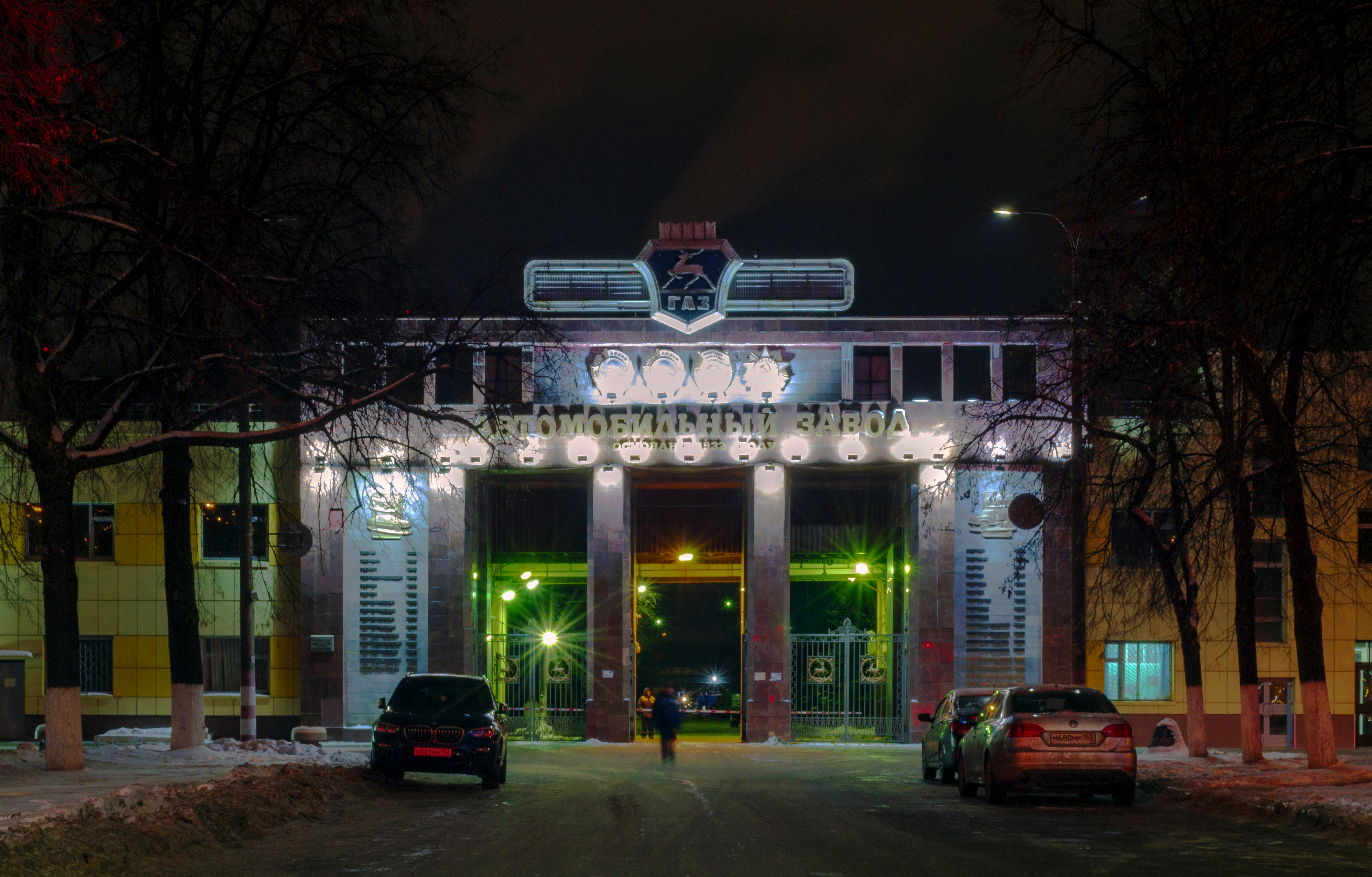 Gorky Automobile Plant. Main entrance